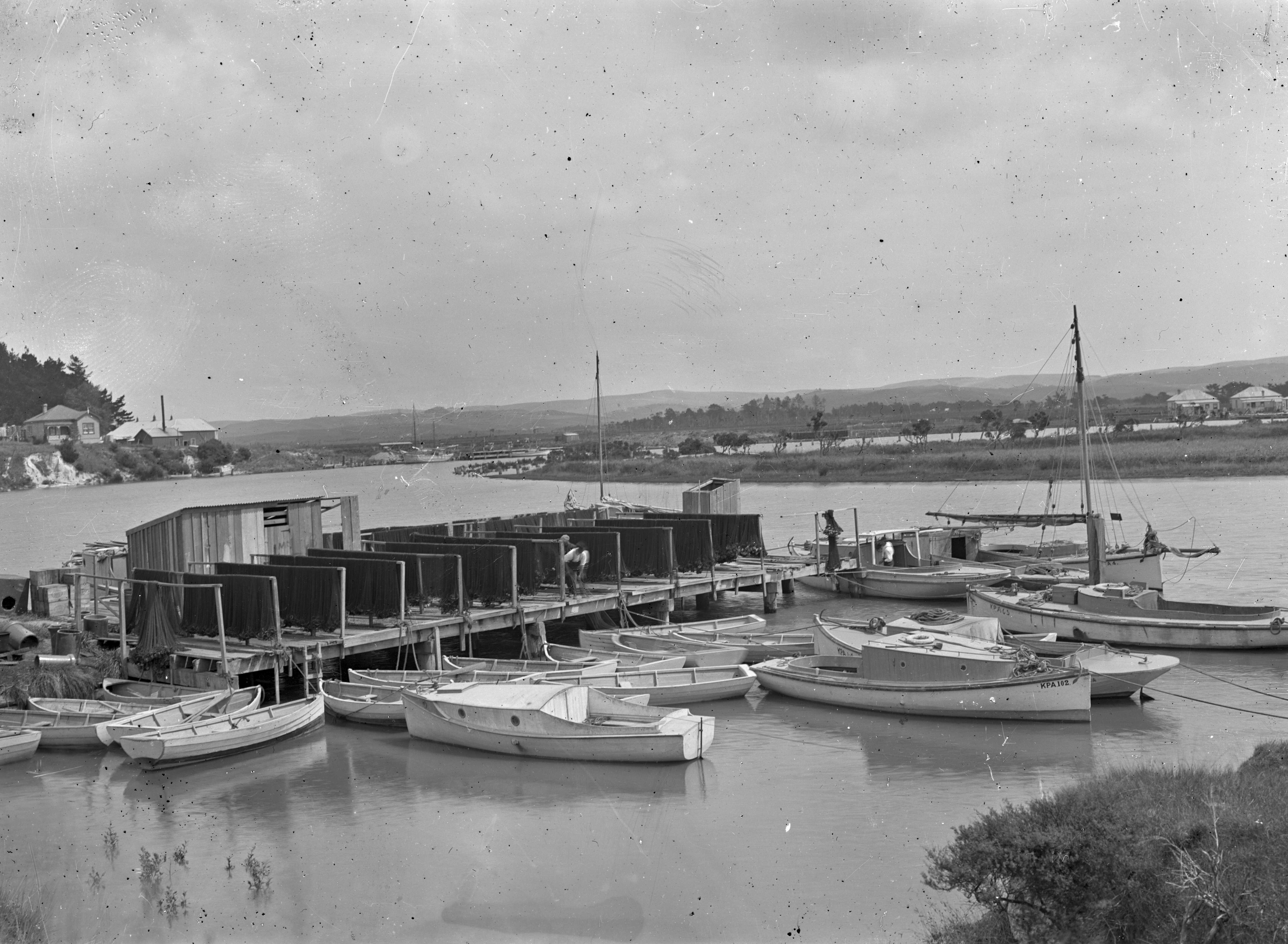 View of fishing boats and dinghies moored in Kaipara Harbour, with fishing nets drying on frames on the wharf. Photograph taken by Albert Percy Godber.